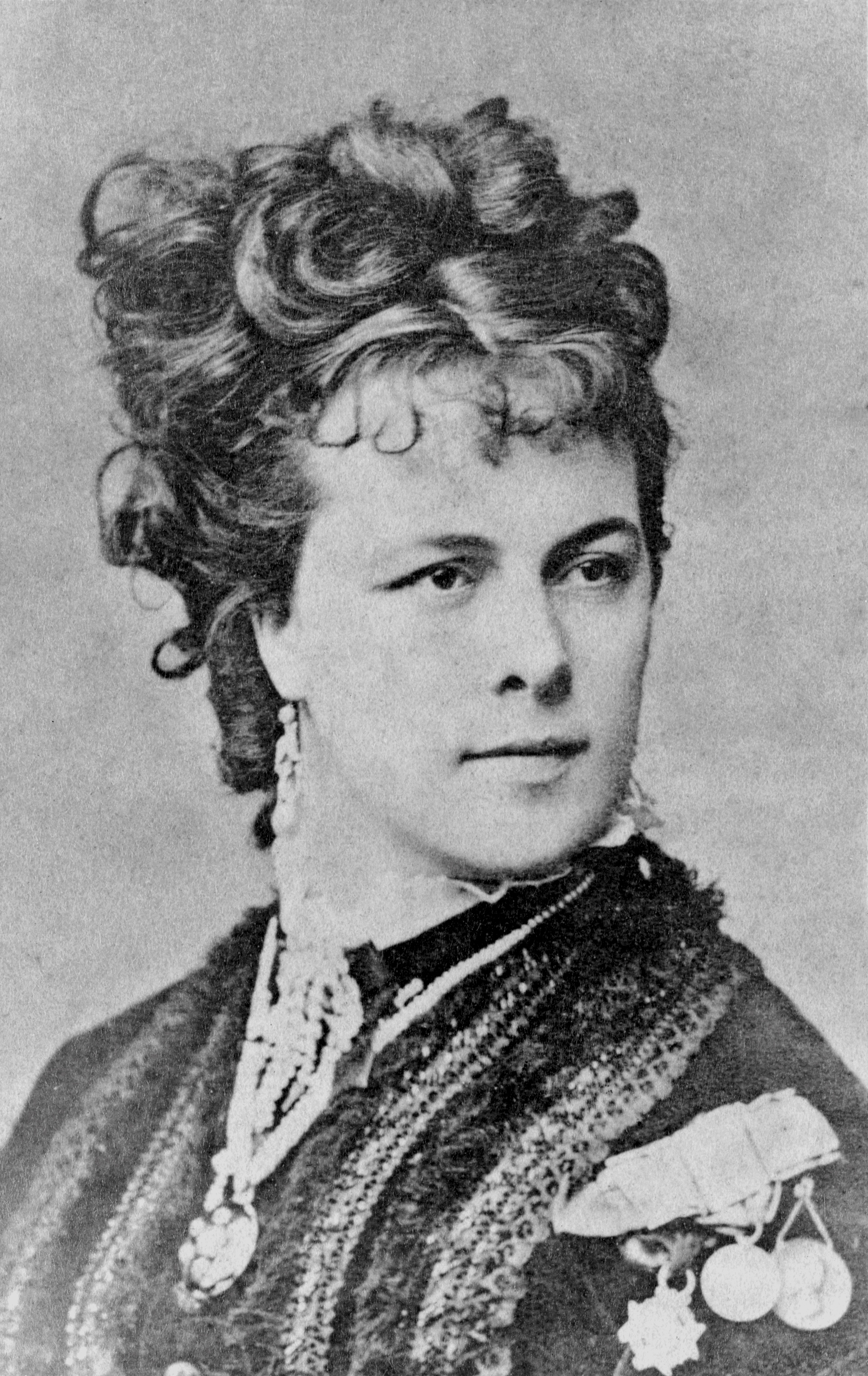 Photograph shows Klara Ziegler, German actress, head-and-shoulders portrait, facing right.